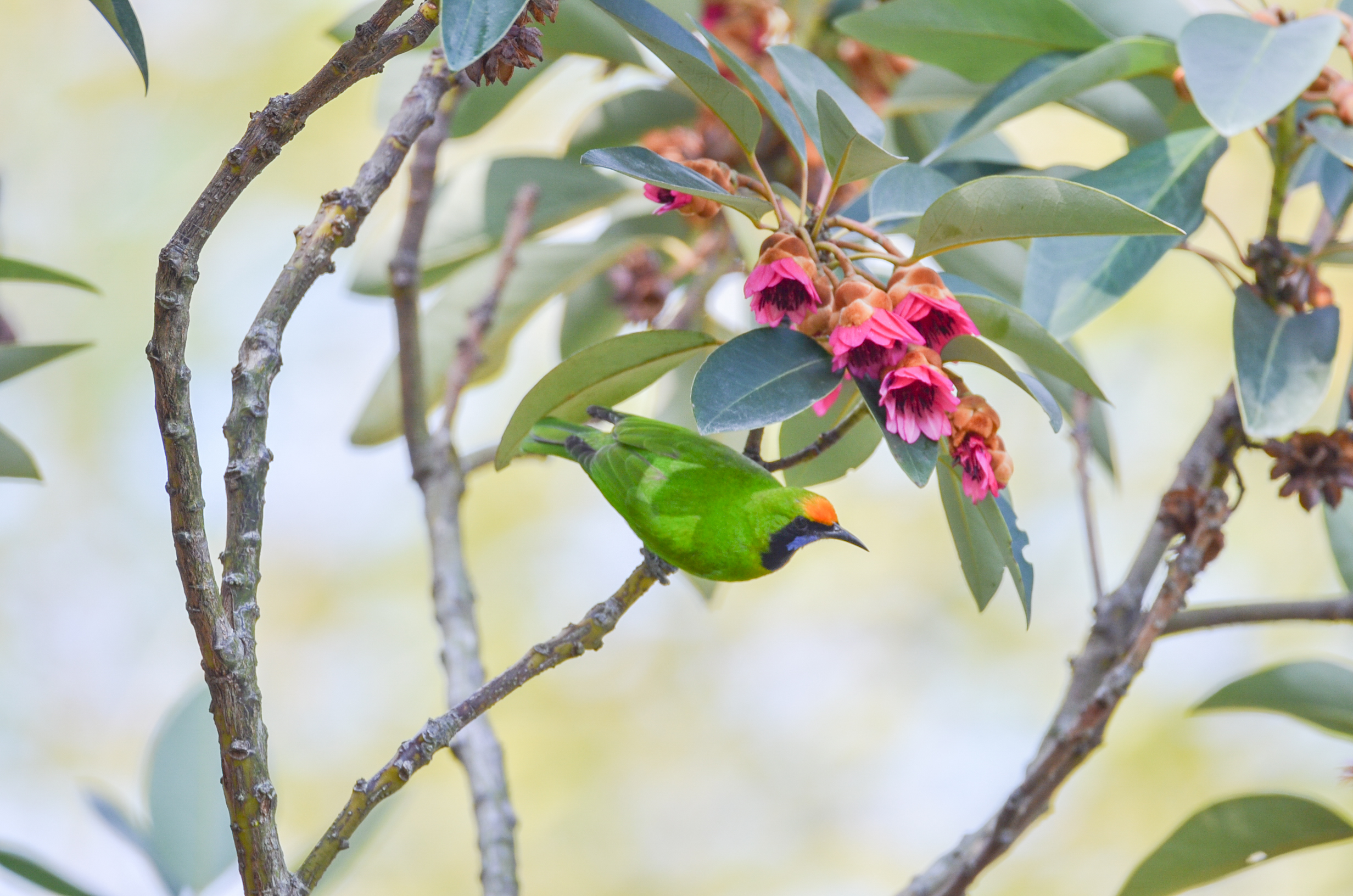 Picture taken at North District Park, Hong Kong